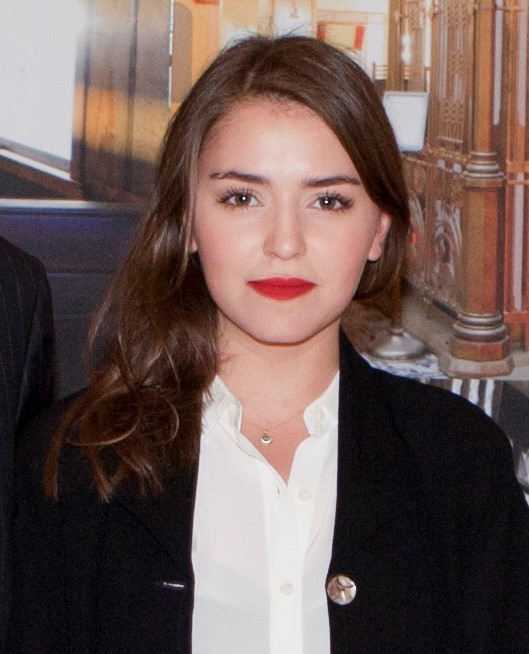 Actress Ava Celik in February 2015